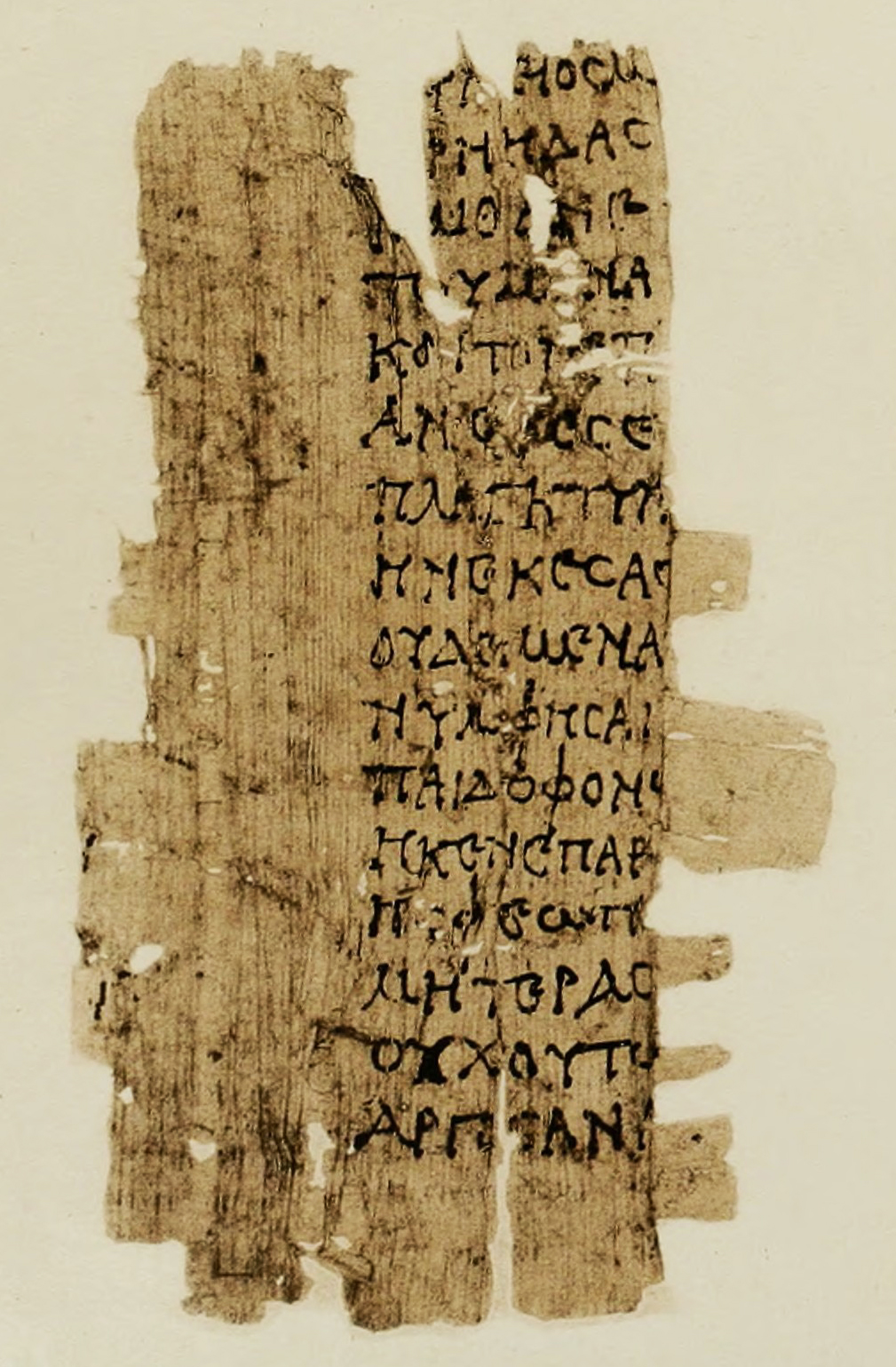 P.Ryl. I 13: Call. Aet. fr. 26 Pf.